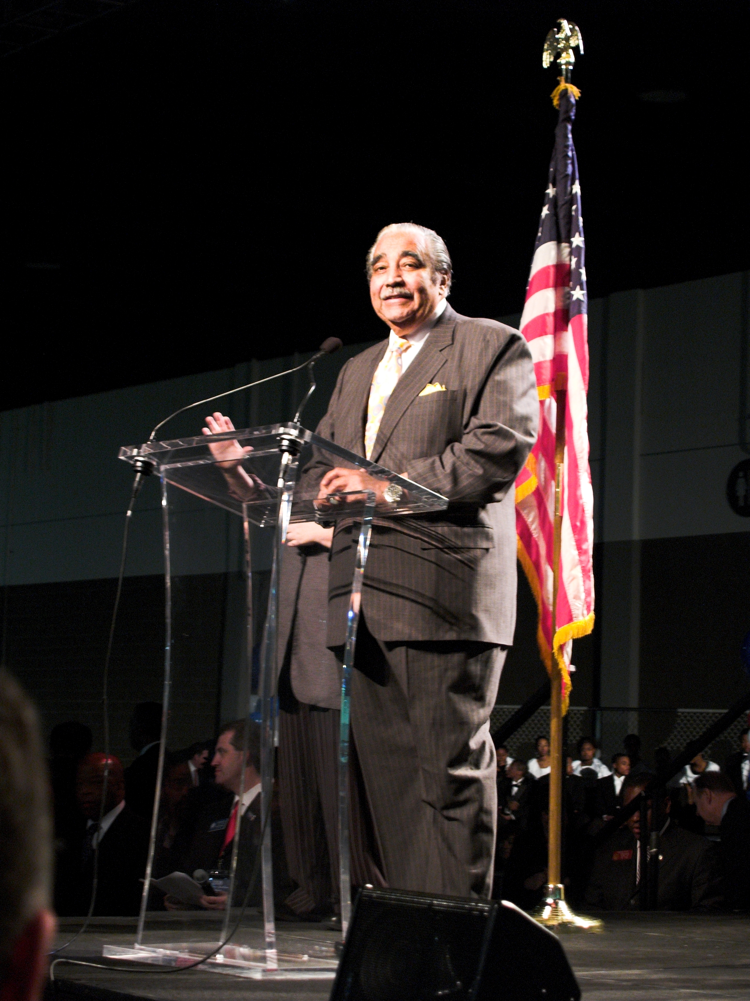 Chairman of the House Ways and Means Committee